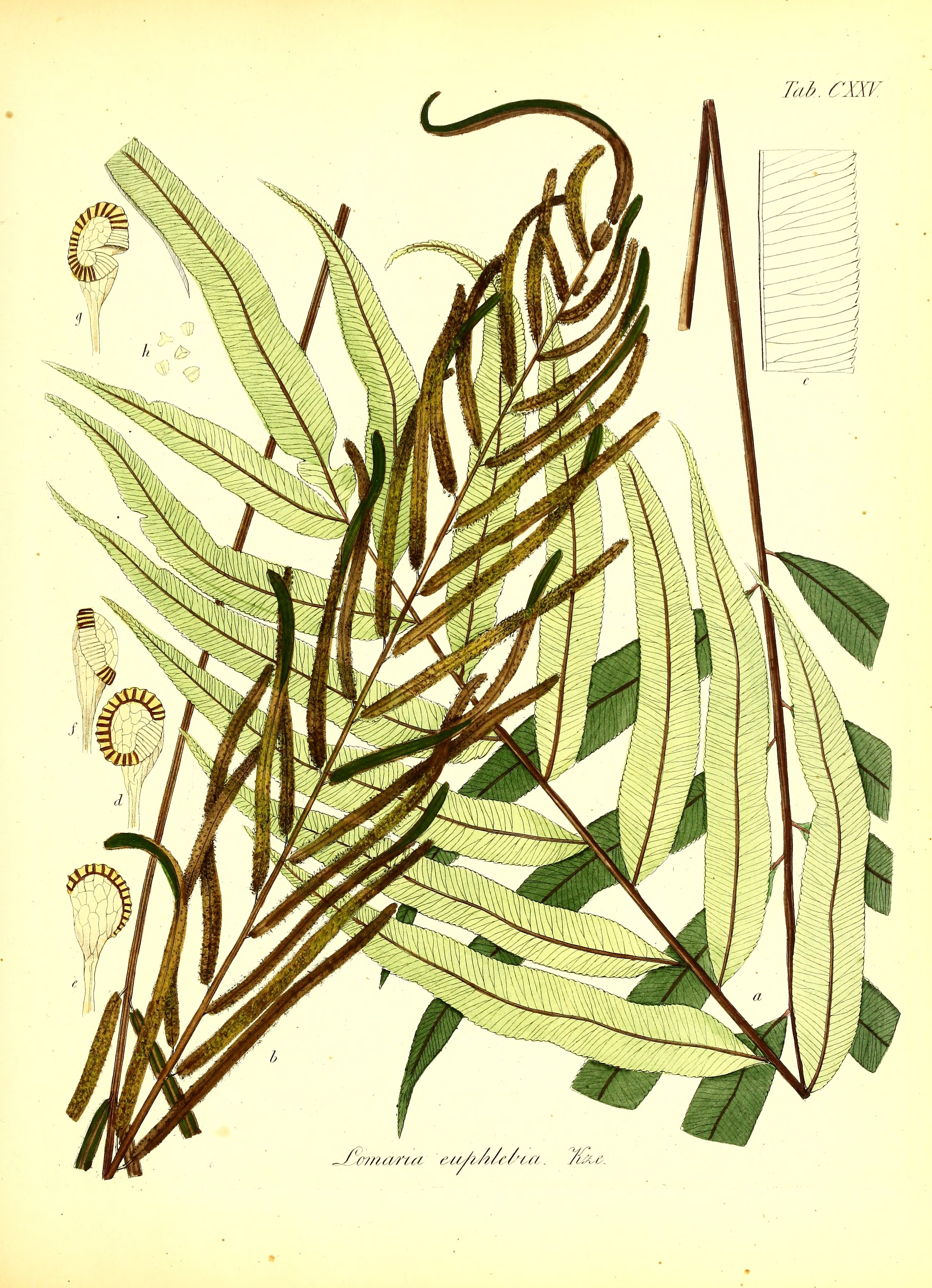 Title: Die Farrnkräuter in kolorirten Abbildungen naturgetreu Erläutert und Beschrieben Year: 1840 (1840s) Authors: Kunze, Gustav, 1793-1851 Subjects: Ferns Publisher: Leipzig, E. Fleischer Text Appearing Before Image: ' Text Appearing After Image: '